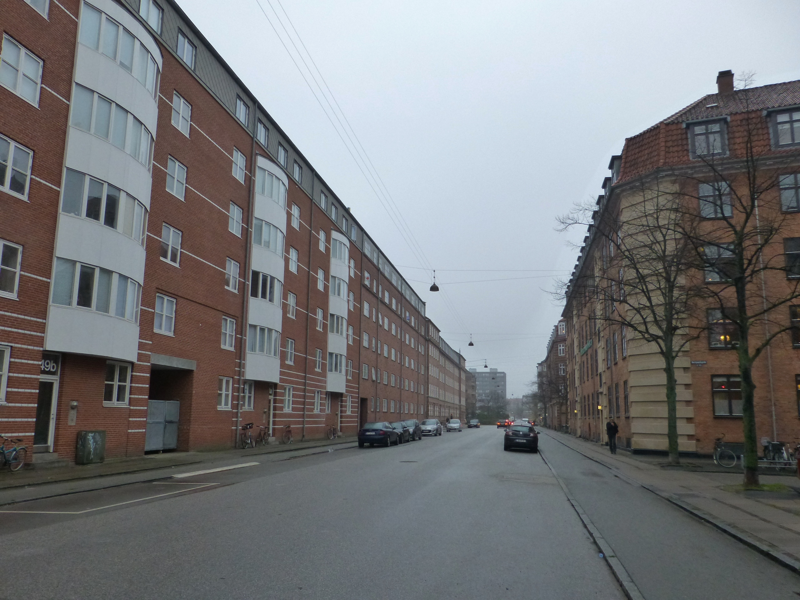 The street Nygårdsvej in Østerbro in Copenhagen.